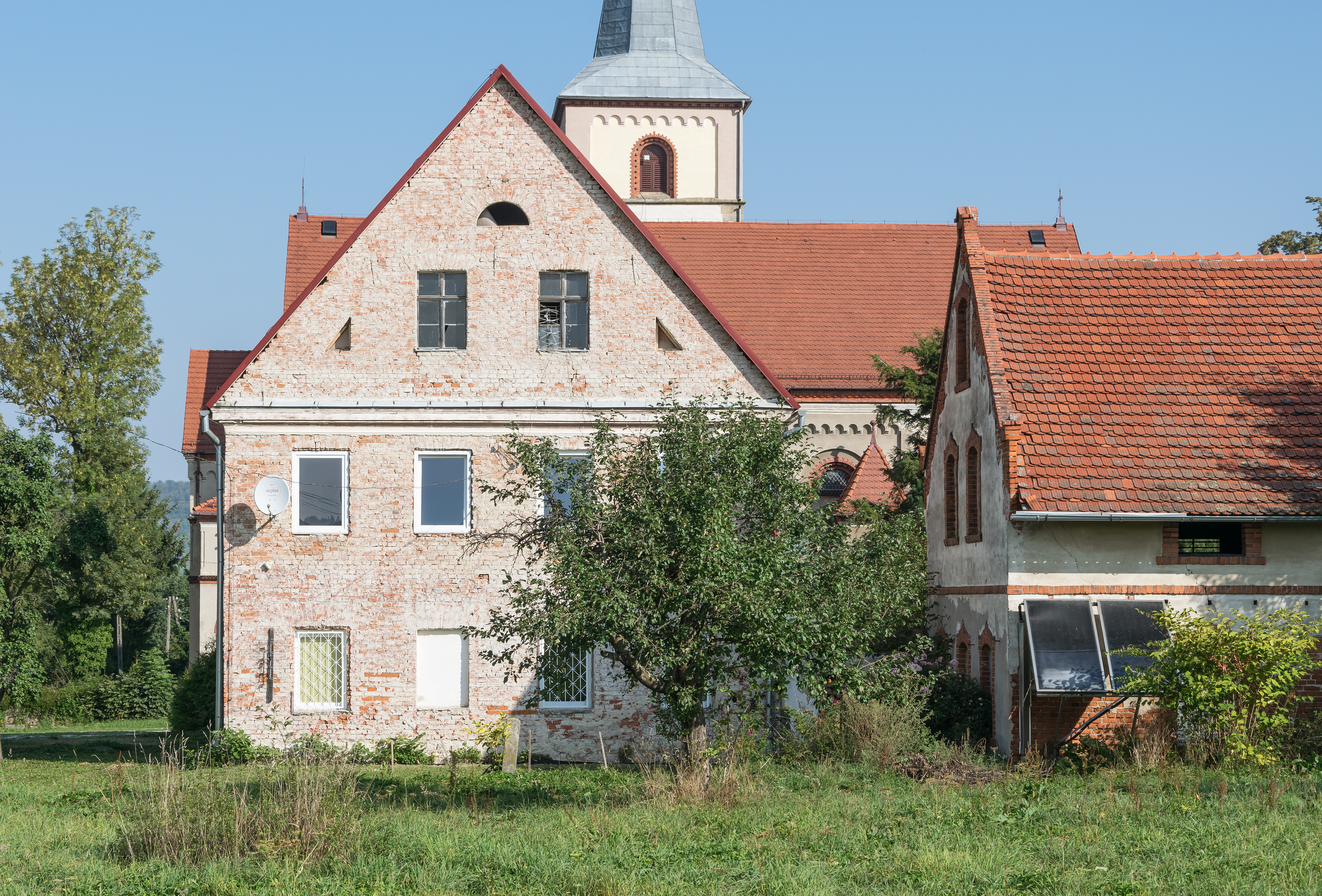 Rectory in Stary Waliszow Wikidata has entry Q30046668 with data related to this item.